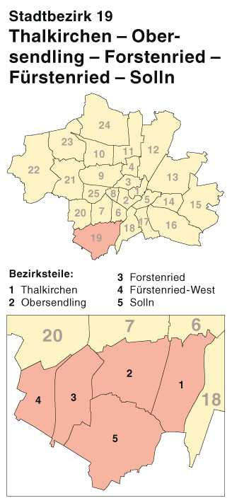 Boroughs of Munich map series